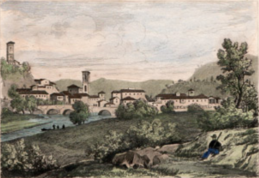 View of Ceva (Province of Cuneo) circa 1835.